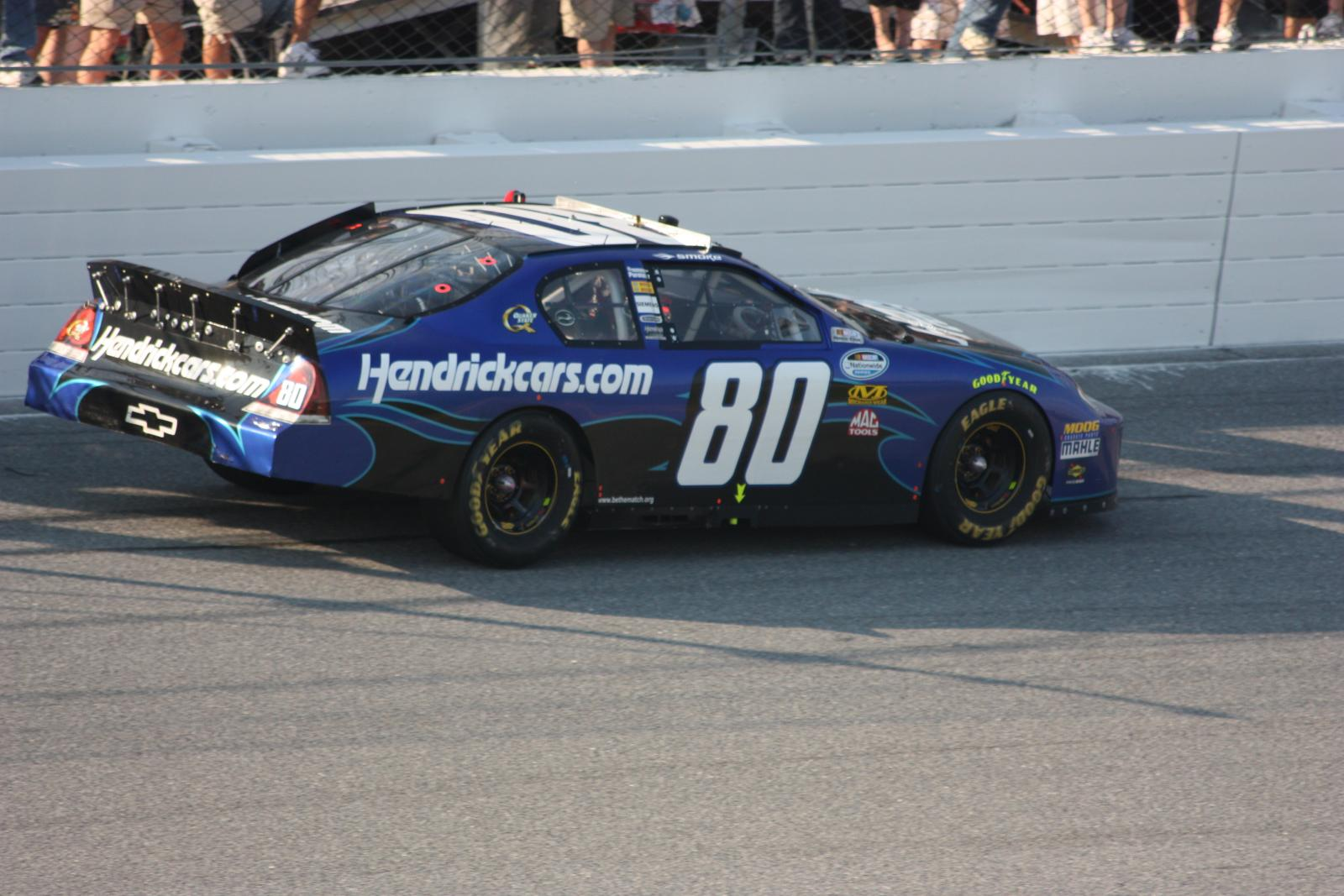 Tony Stewart after winning the Camping World 300 at Daytona International Speedway in 2009.